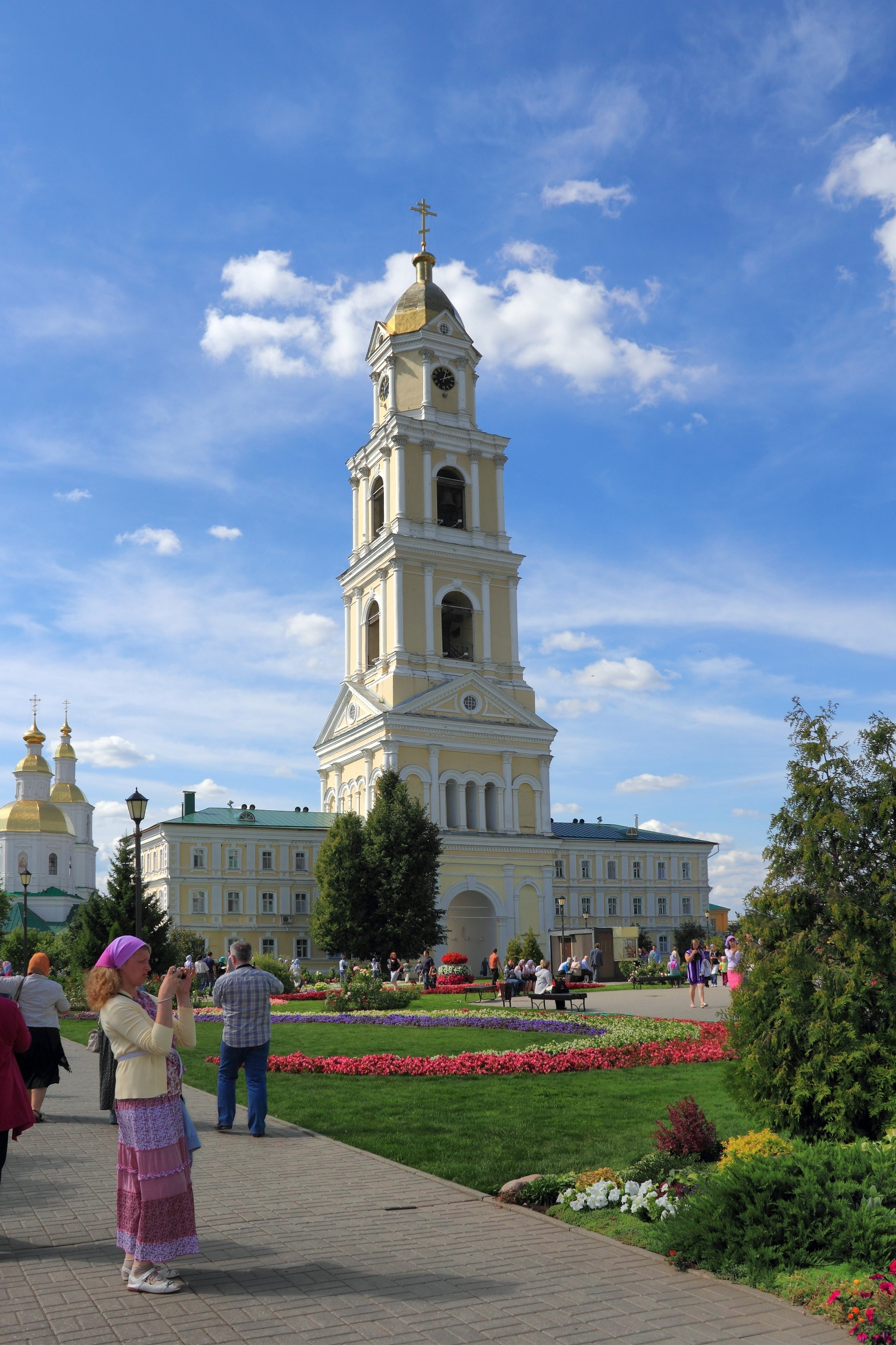 Diveyevo. Serafimo-Diveevsky Monastery. Bell tower